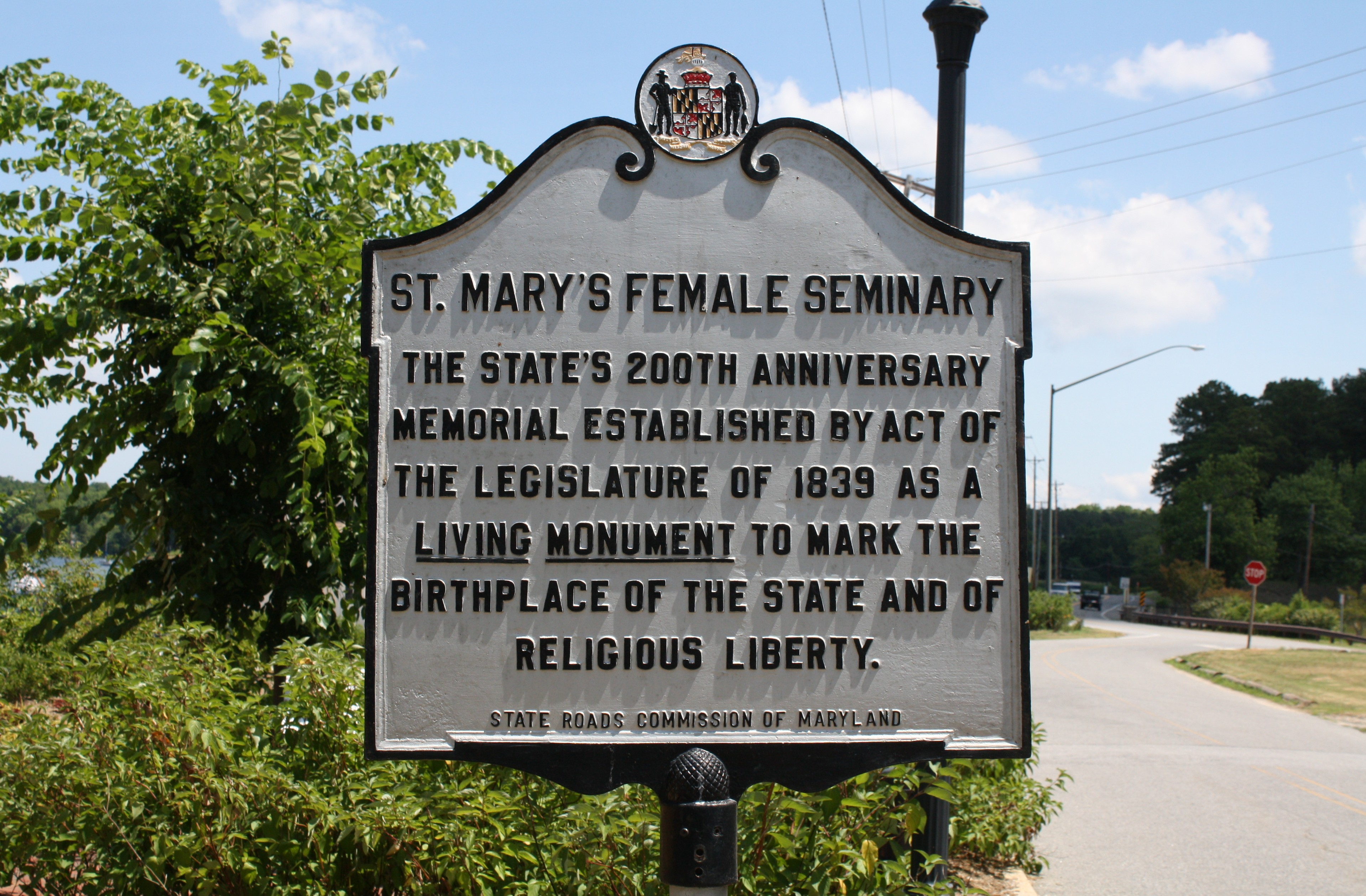 State of Maryland Historic Monument sign, placed by order of the State Legislature on the states 200th birthday (1976), State quoting original designation of St. Mary's Female Seminary as a "Living monument to the birthplace of the state and religious liberty."